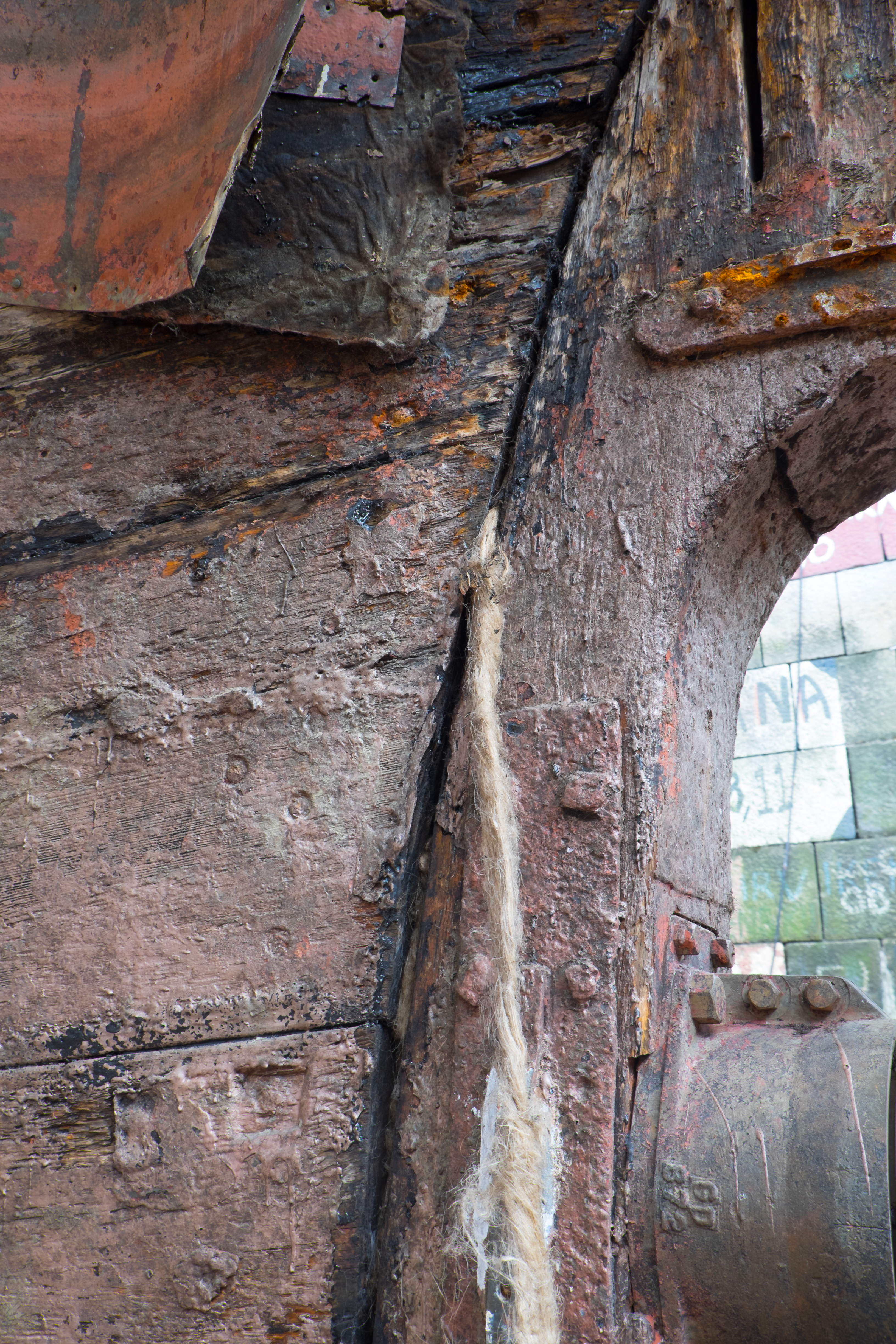 Caulking a wooden boat.